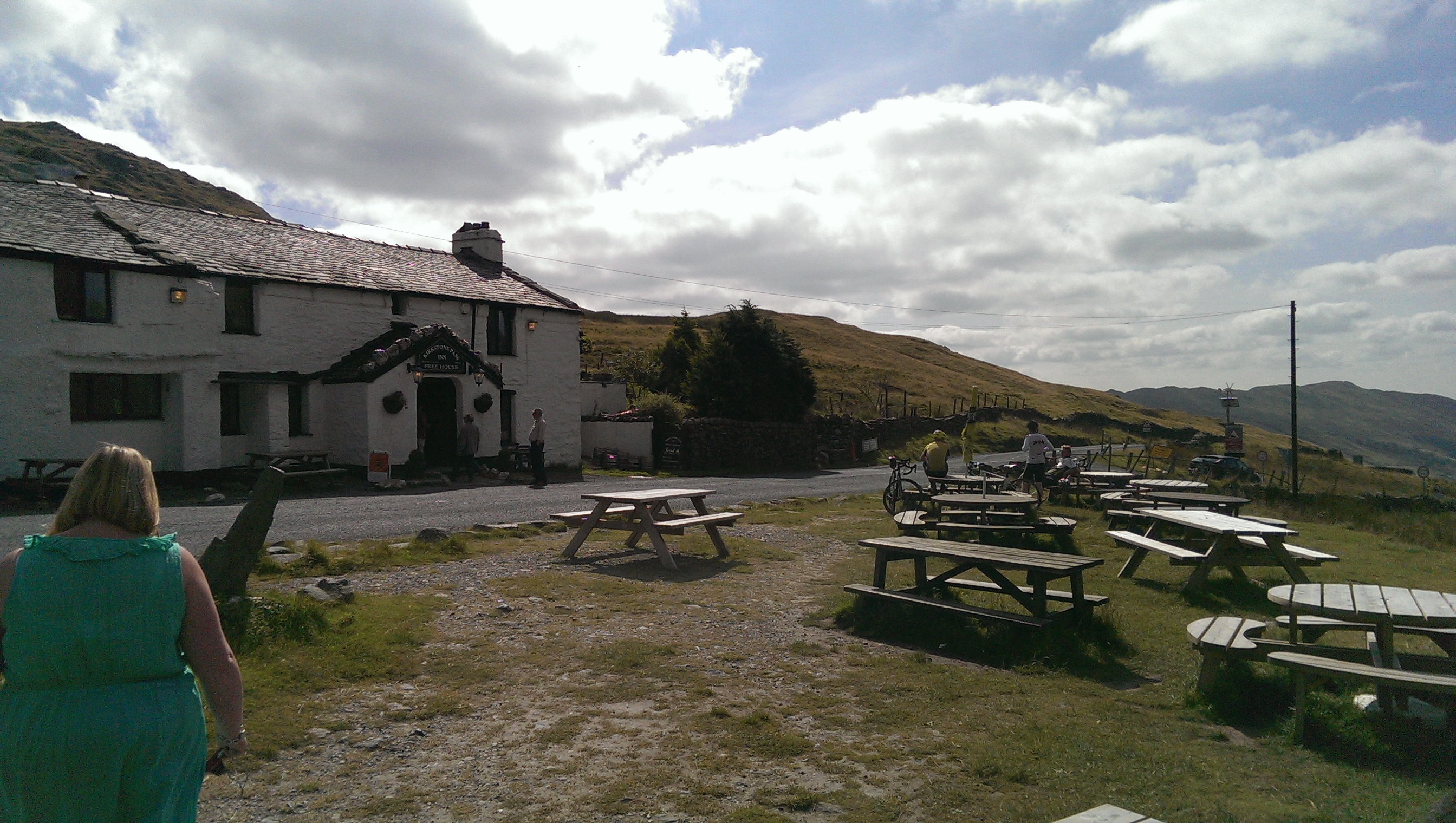 The Kirkstone Pass Inn, Kirkstone Pass, Lake District, Cumbria, England.